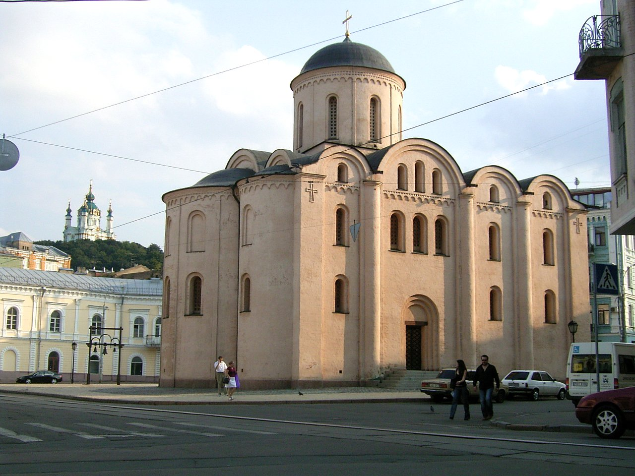 Church of Godmother Pyrogoscha, Kyiv